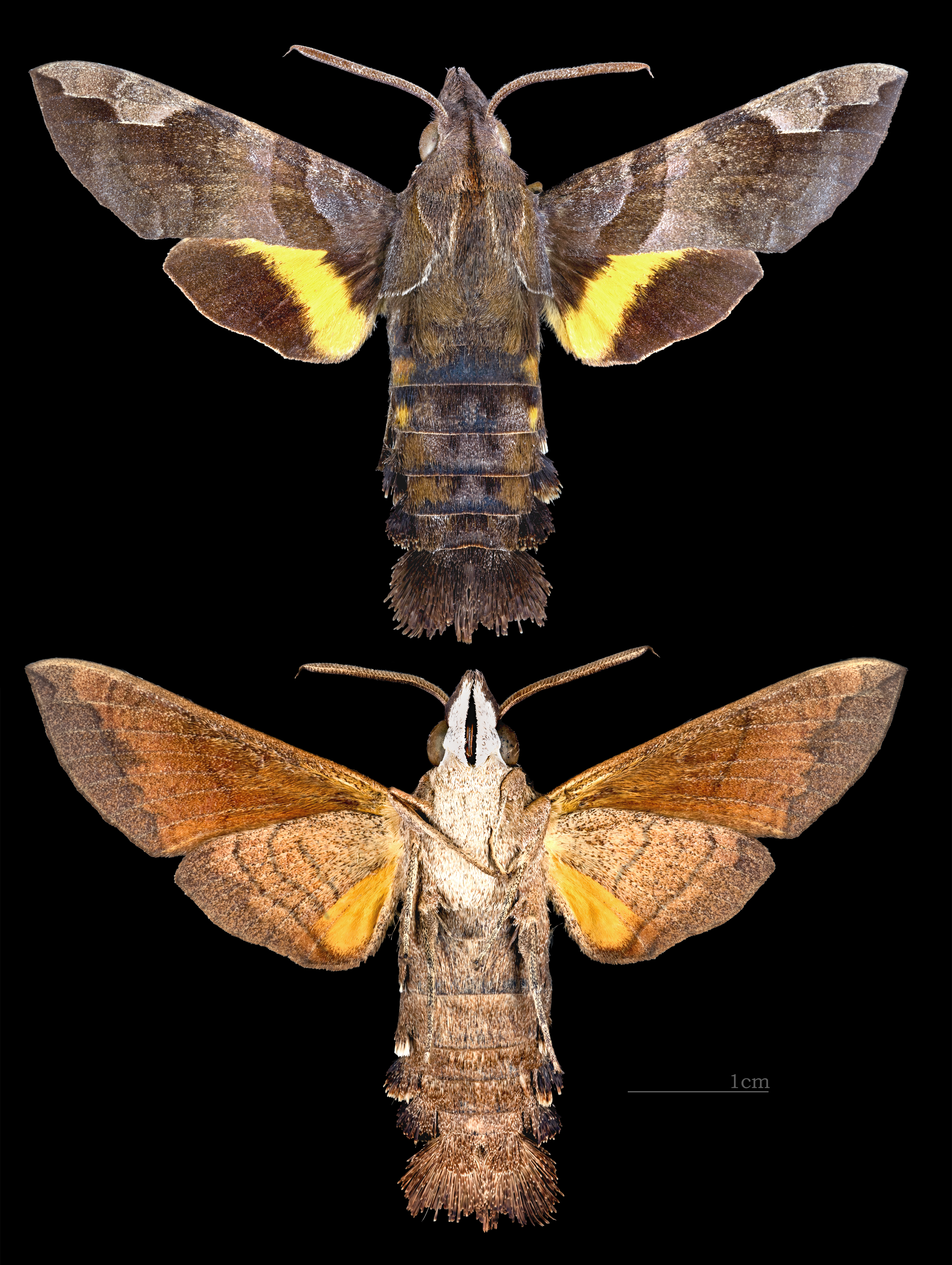 Macroglossum saga - Two views of same specimen Collection of the Mathematician Laurent Schwartz